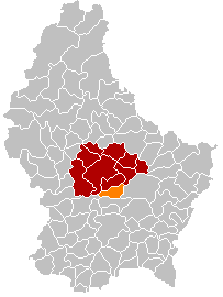 Own edit of Kanton MerschLocatie.png